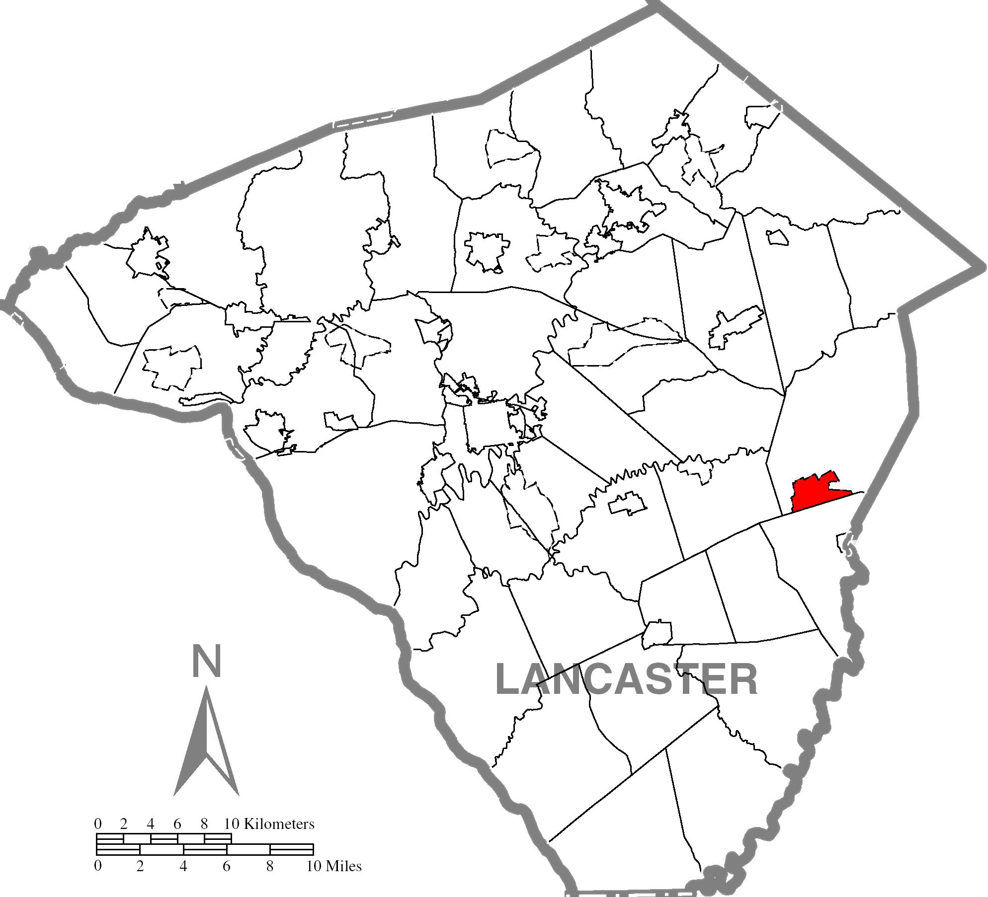 Highlighted Lancaster County map of Gap.